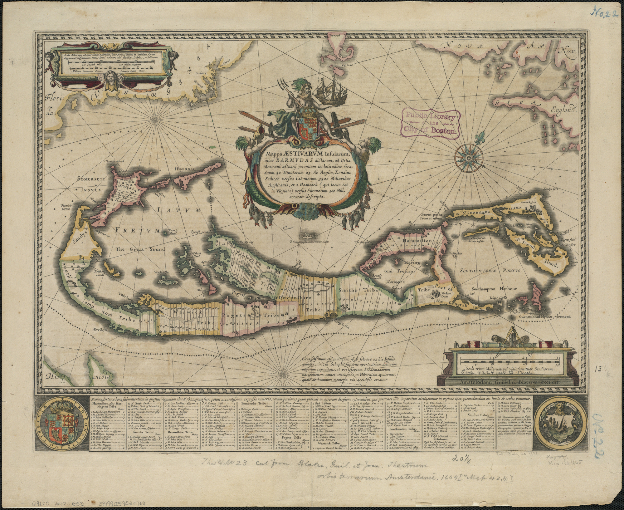 Zoom into at Author: Willem Blaeu (1571–1638) Alternative names Willem Janszoon Blaeu, Willem Jansz Blaeu, Guilielmus Janssonius, Willems Jans Zoon, Guilielmus or G. BlaeuDescriptionDutch cartographer, publisher and writerDate of birth/death 1571 18 October 1638Location of birth/death Uitgeest AmsterdamWork location AmsterdamAuthority control : Q520327 VIAF: 61587424 ISNI: 0000 0001 1027 9058 ULAN: 500175604 LCCN: n80024098 NLA: 35019144 WorldCat creator QS:P170,Q520327 Publisher: Blaeu, Willem Janszoon Date: 1662 Location: Bermuda Islands Dimension 34x51cm Scale: [ca. 1:50,700] Call Number: G9120 1662 .B53